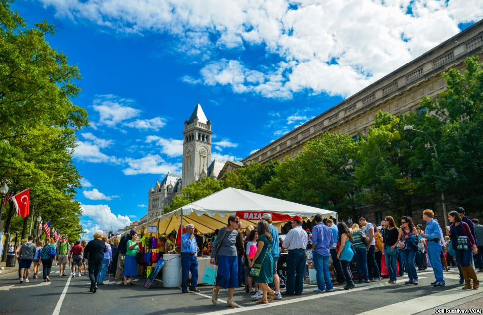 2013 Turkish Culture Festival in Washington, D.C., United States.